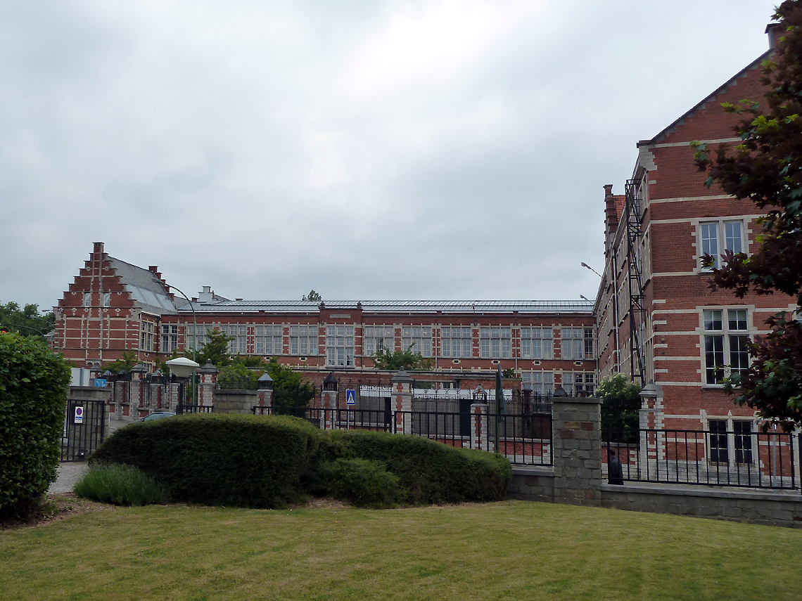 PNT (school in Tienen)